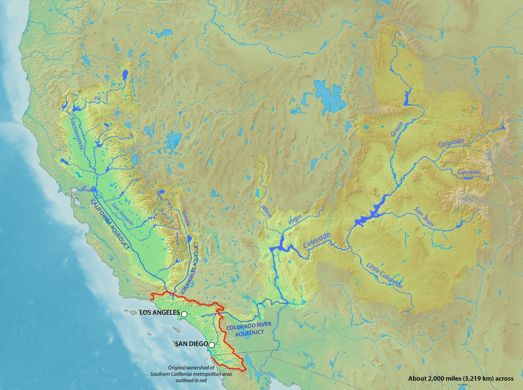 A map of the "Southern California Watershed" i.e. all the land whose water could eventually end up in Southern California by way of the three main aqueducts, the California Aqueduct, Los Angeles Aqueduct and Colorado River aqueduct. The resulting piecemeal "watershed" includes portions of the Colorado, Sacramento, San Joaquin, Trinity, and Owens basins, extending through parts of the states of California, Oregon, Nevada, Arizona, New Mexico, Colorado, Utah, and Wyoming (possibly more?), and covering close to 200,000 square miles or more of the Southwestern United States.